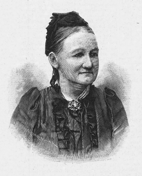 Swedish artist (glass etching) Hilda Pettersson, née Böös (1824-1903)